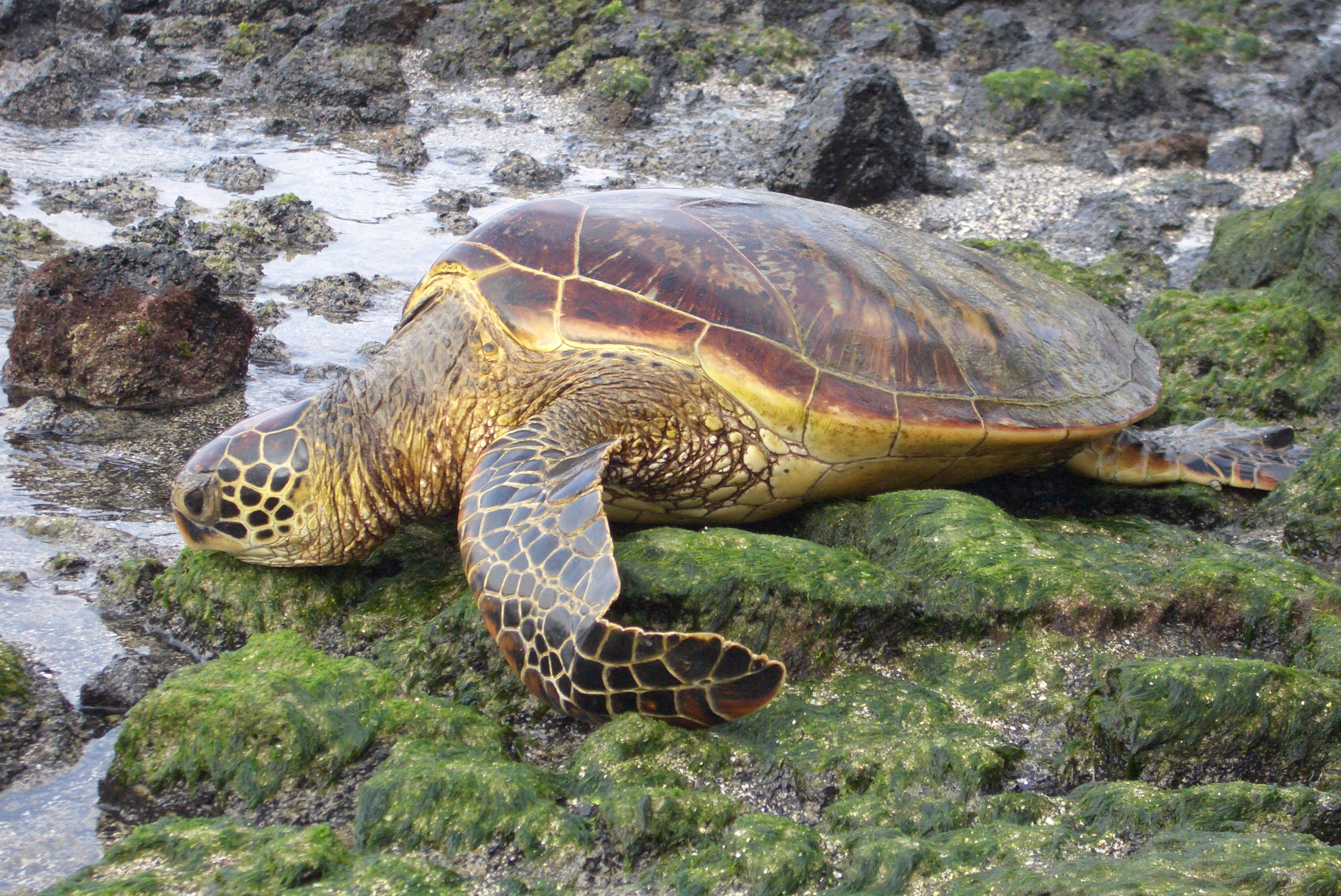 Green Sea Turtle from the big Island of Hawaii.